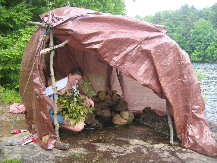 typical hiking banya